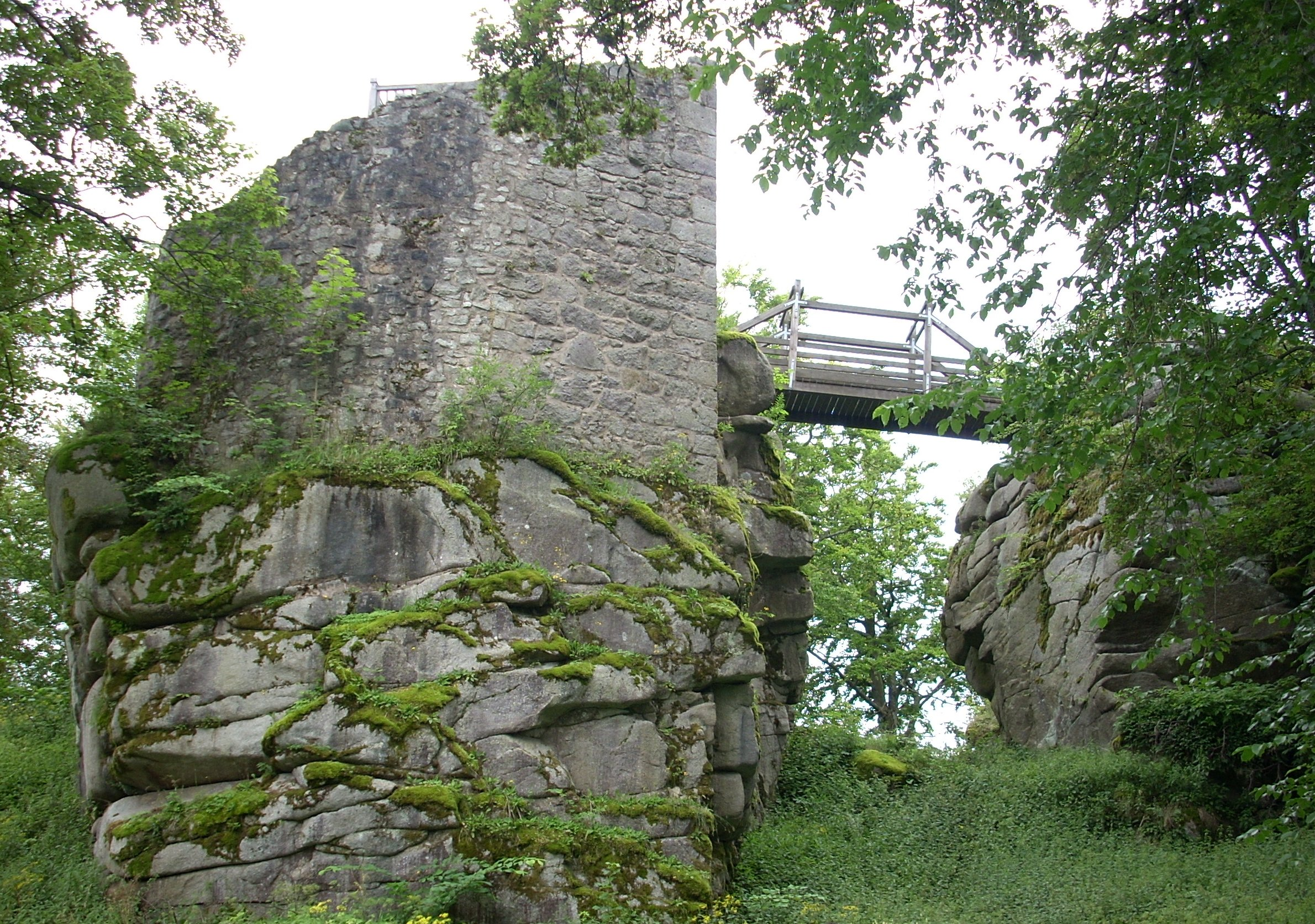 remains of the donjon of castle Schellenberg near Floß / Germany